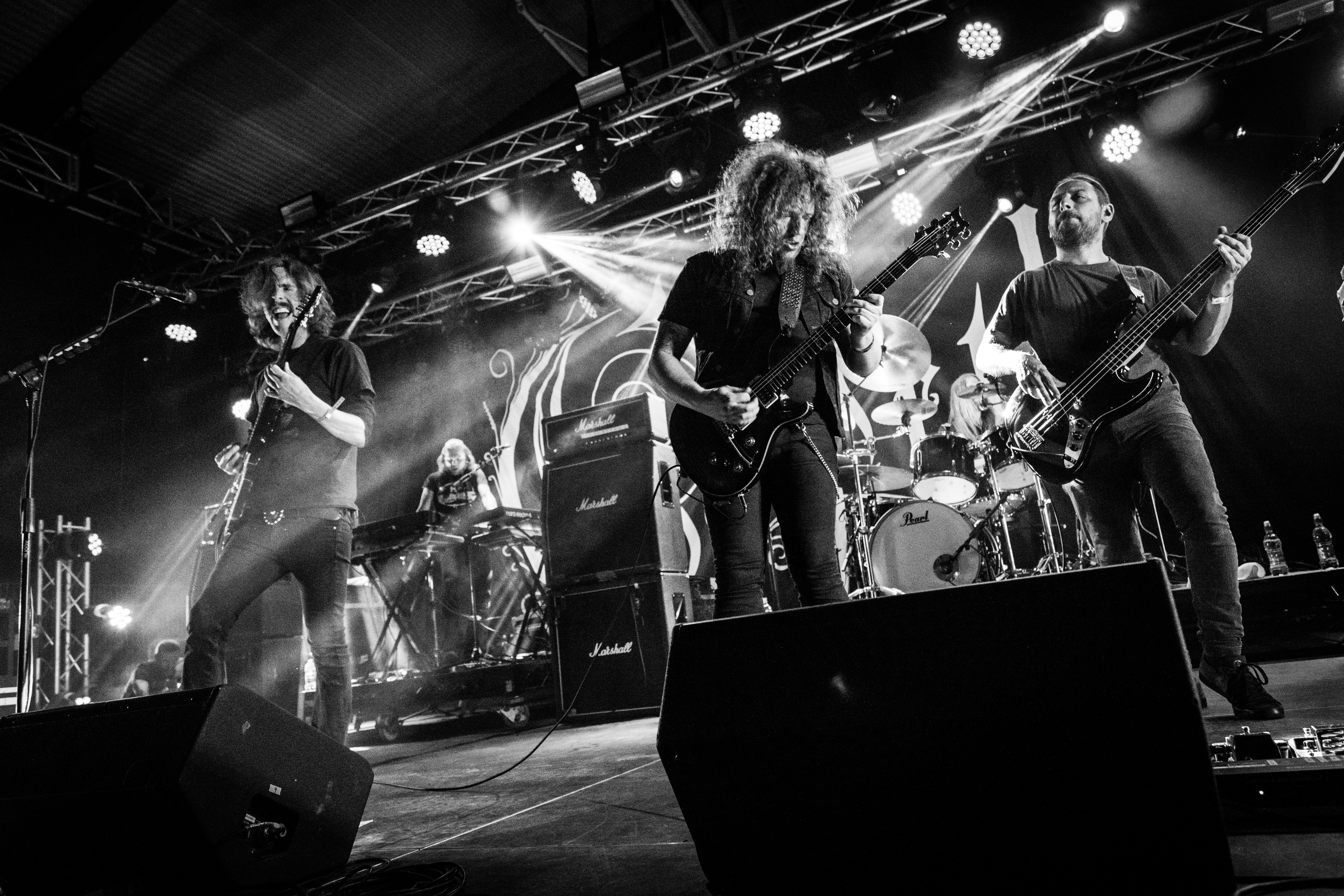 Opeth performing live at Eistnaflug 2016